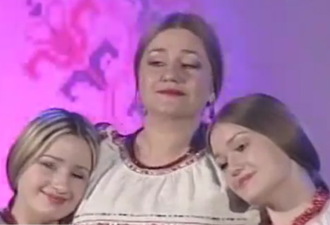 Nataliya May, Ukrainian singer, during the concert with her daughters